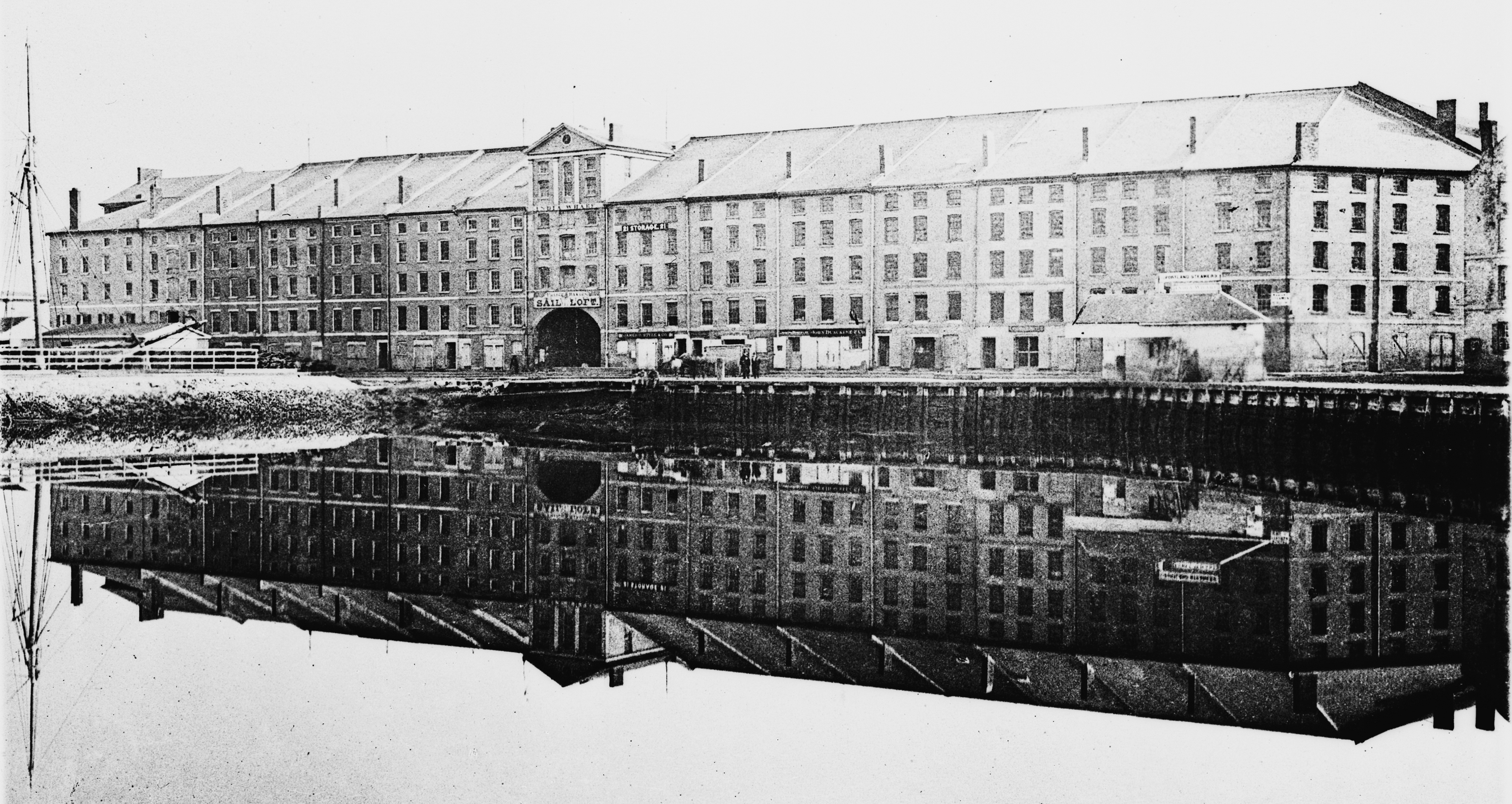 India Wharf, Boston, before 1868. From the Historic American Buildings Survey, Library of Congress, Prints and Photograph Division, Washington, D.C. 20540 USA. Survey number HABS MA-2-76.